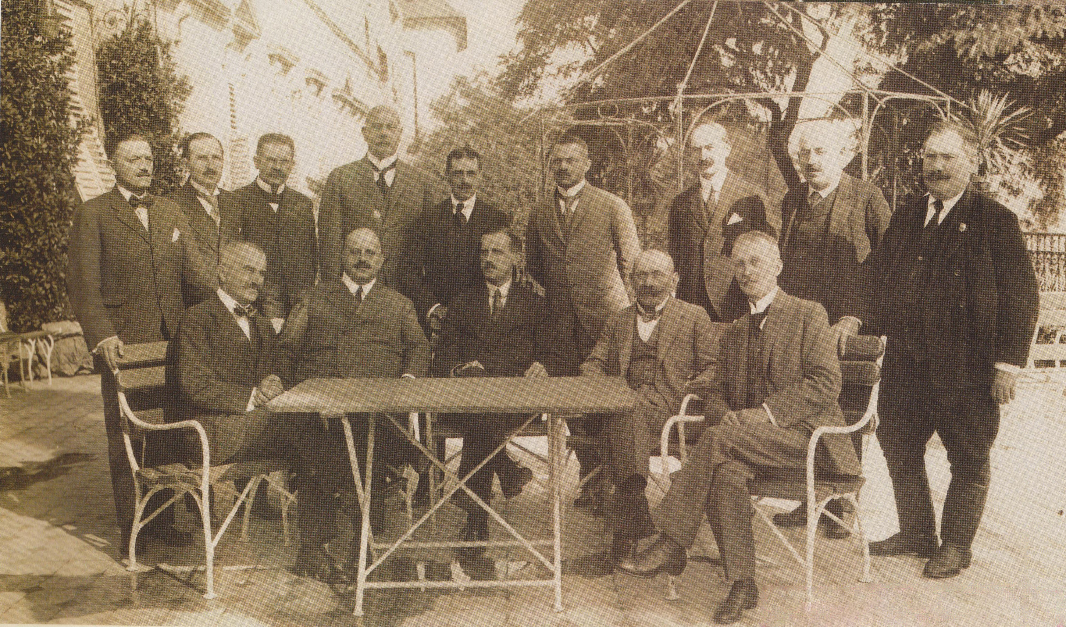 Cabinet of István Friedrich in 1919. Some members are missing.